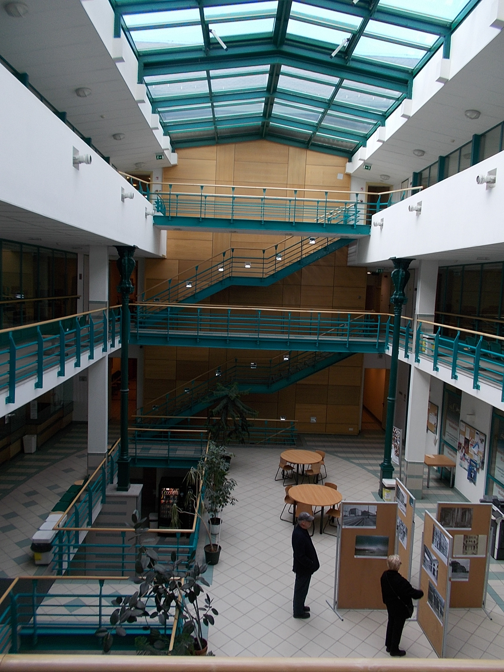 Corvinus University of Budapest Sóház building in Ferencváros district, Budapest, Hungary.